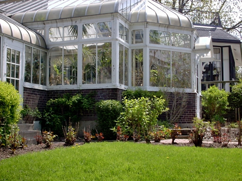 Conservatory Greenhouse, 93 Highland Ave. Presidents Estate University of Toronto. (2005) by Wayne Ray